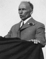 Martin Tranmæl, probably 1935-1940.